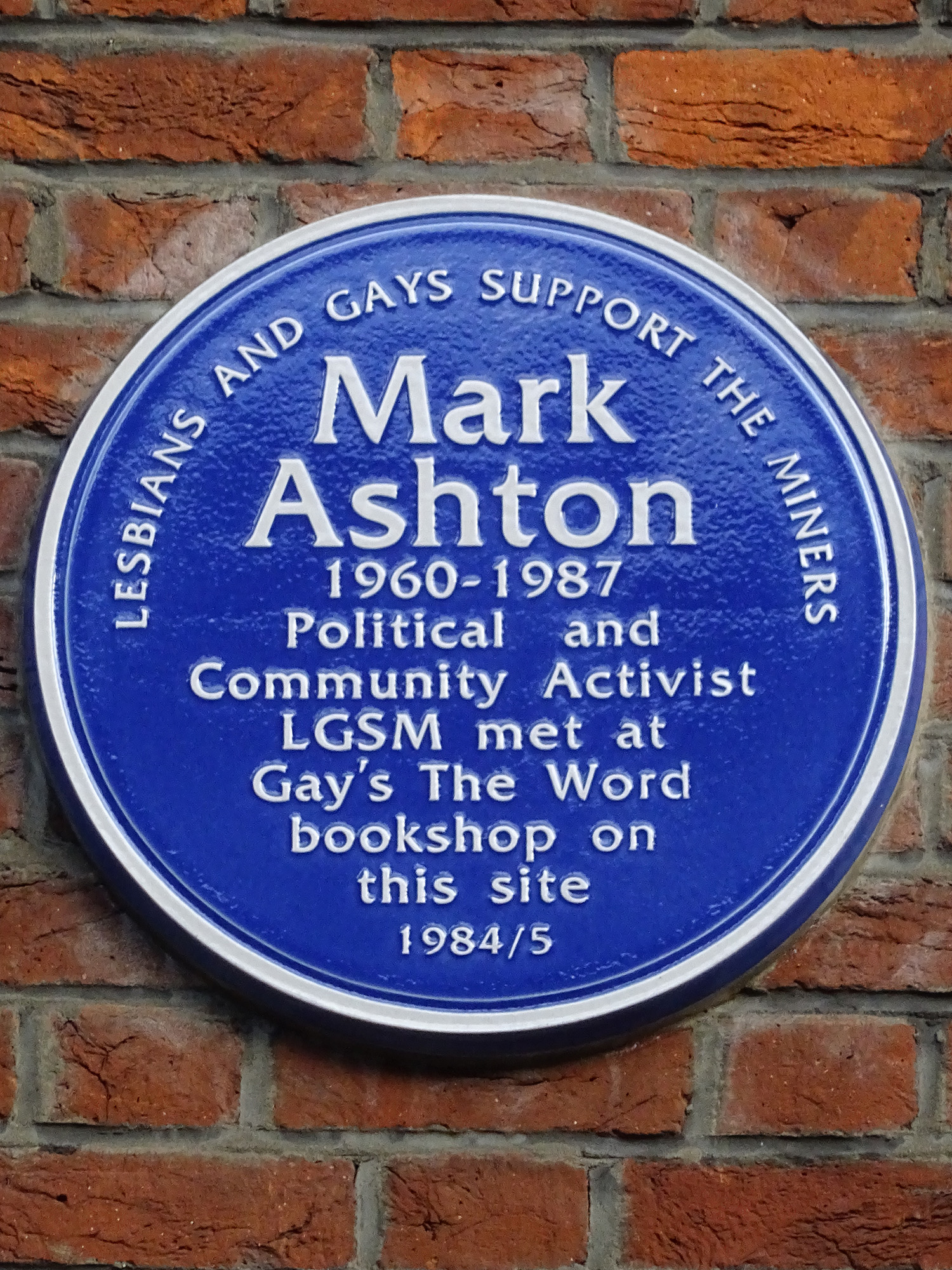 Blue plaque erected 19th May 2017 by Lesbians and Gays Support The Miners at Gay's The Word Bookshop, 66 Marchmont Street, London WC1N 1AB